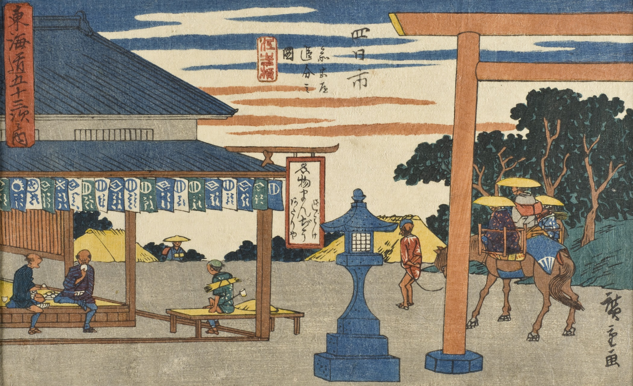 circa 1841-1842 Series: number 44 Prints; woodcuts Color woodblock print Image: 7 11/16 x 12 7/16 in. (19.53 x 31.59 cm); Sheet: 8 13/16 x 13 3/8 in. (22.38 x 33.97 cm) Gift of Arthur and Fran Sherwood (M.2007.152.5) Japanese Art